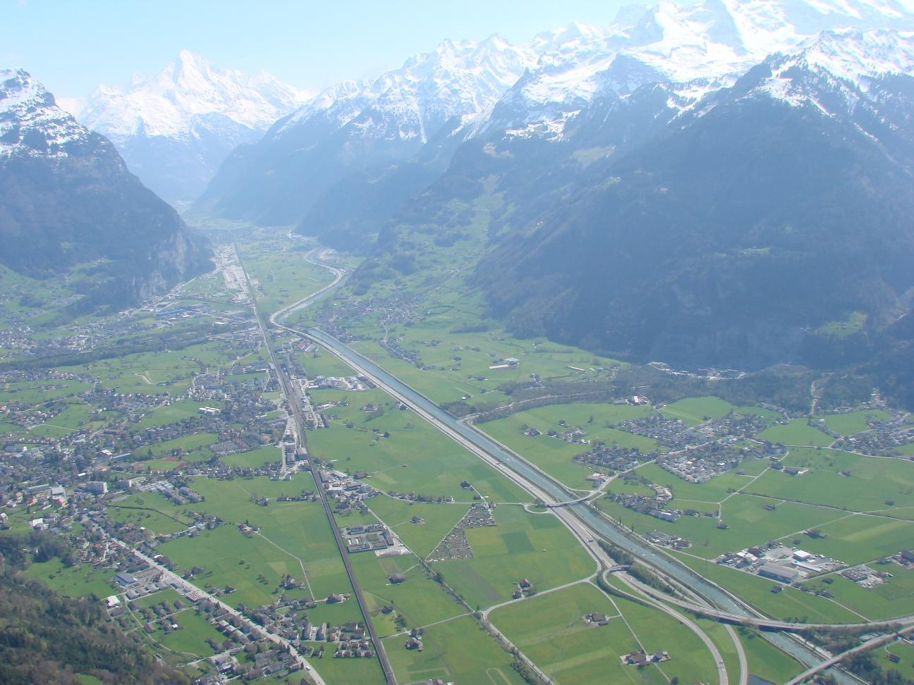 The Reuss at Flüelen